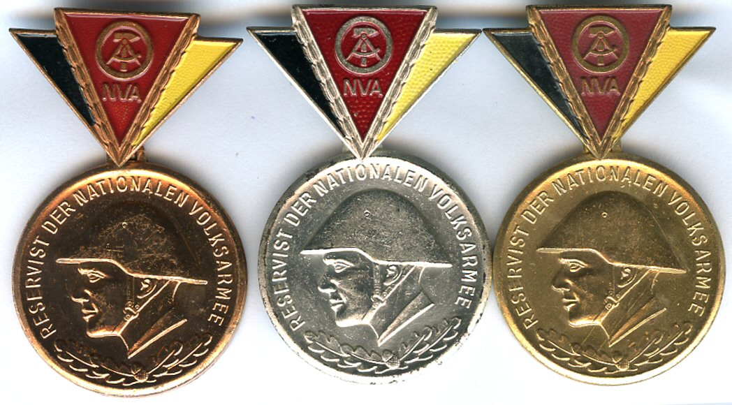 GDR Medal For Faithful Service in the National People's Army Reserve